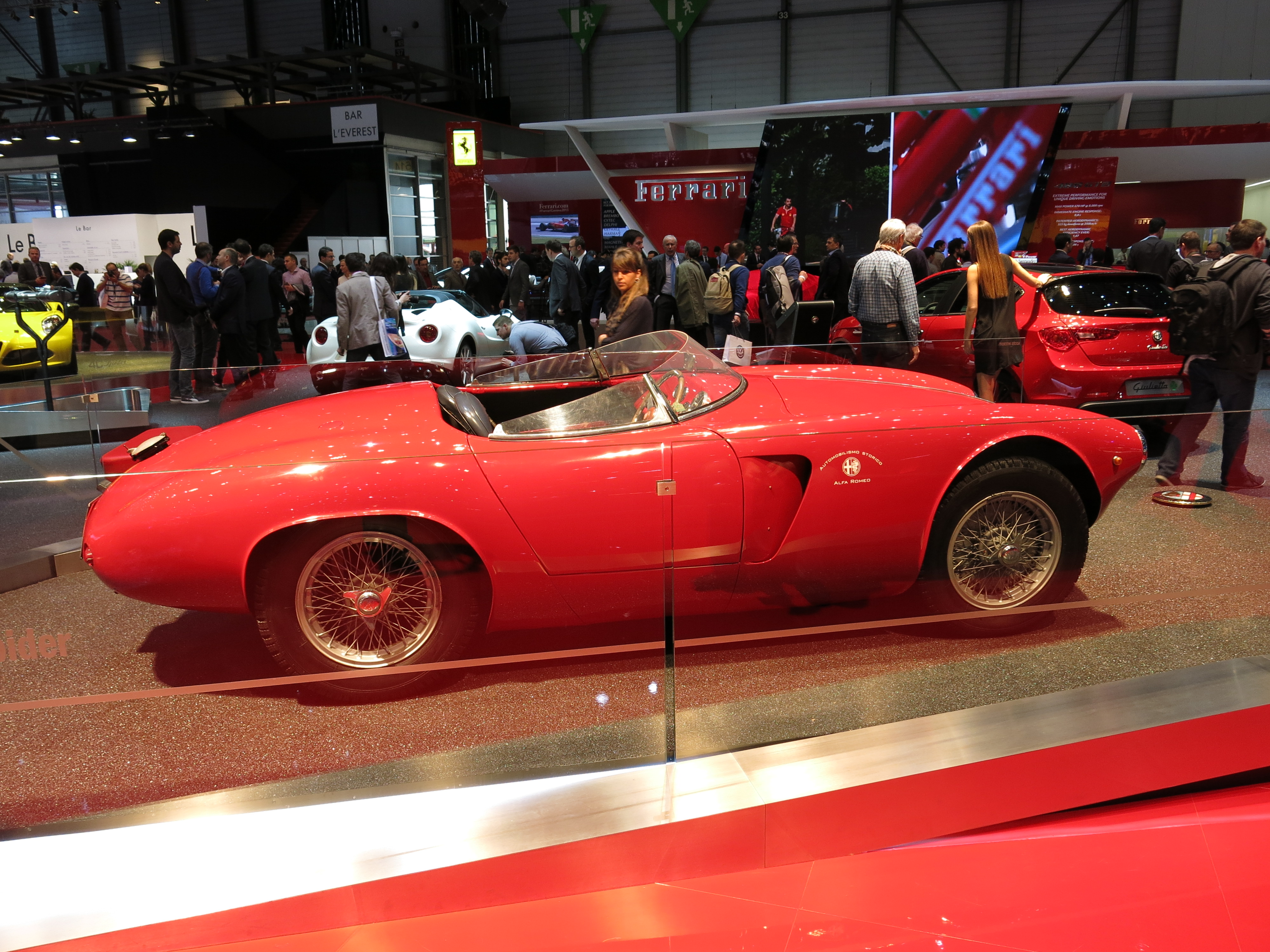 1900 Sport Spider Geneva Motor Show 2015 (photo taken on the first press day)